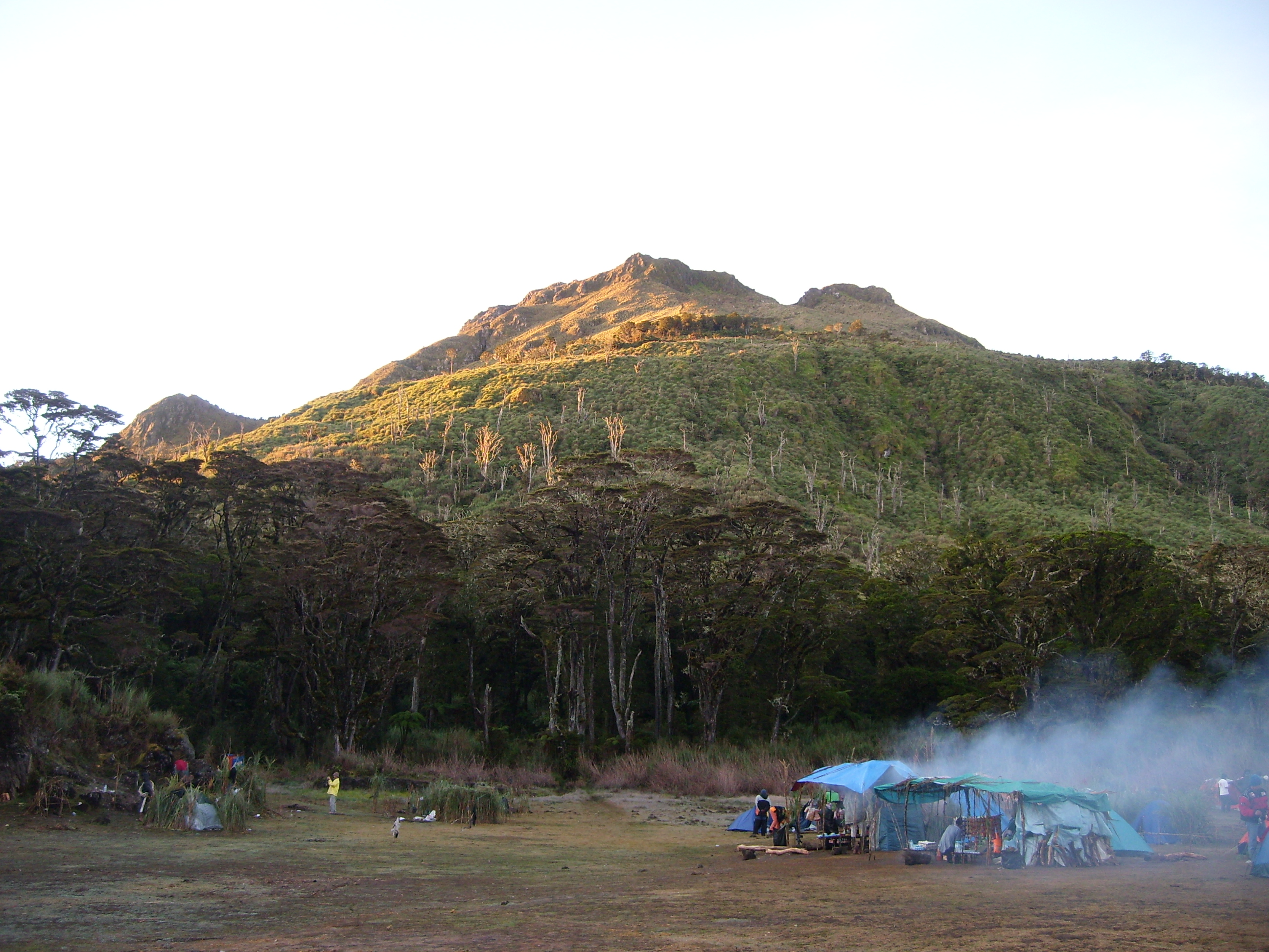 Mount Apo, Mindanao, Philippines as seen from Lake Venado